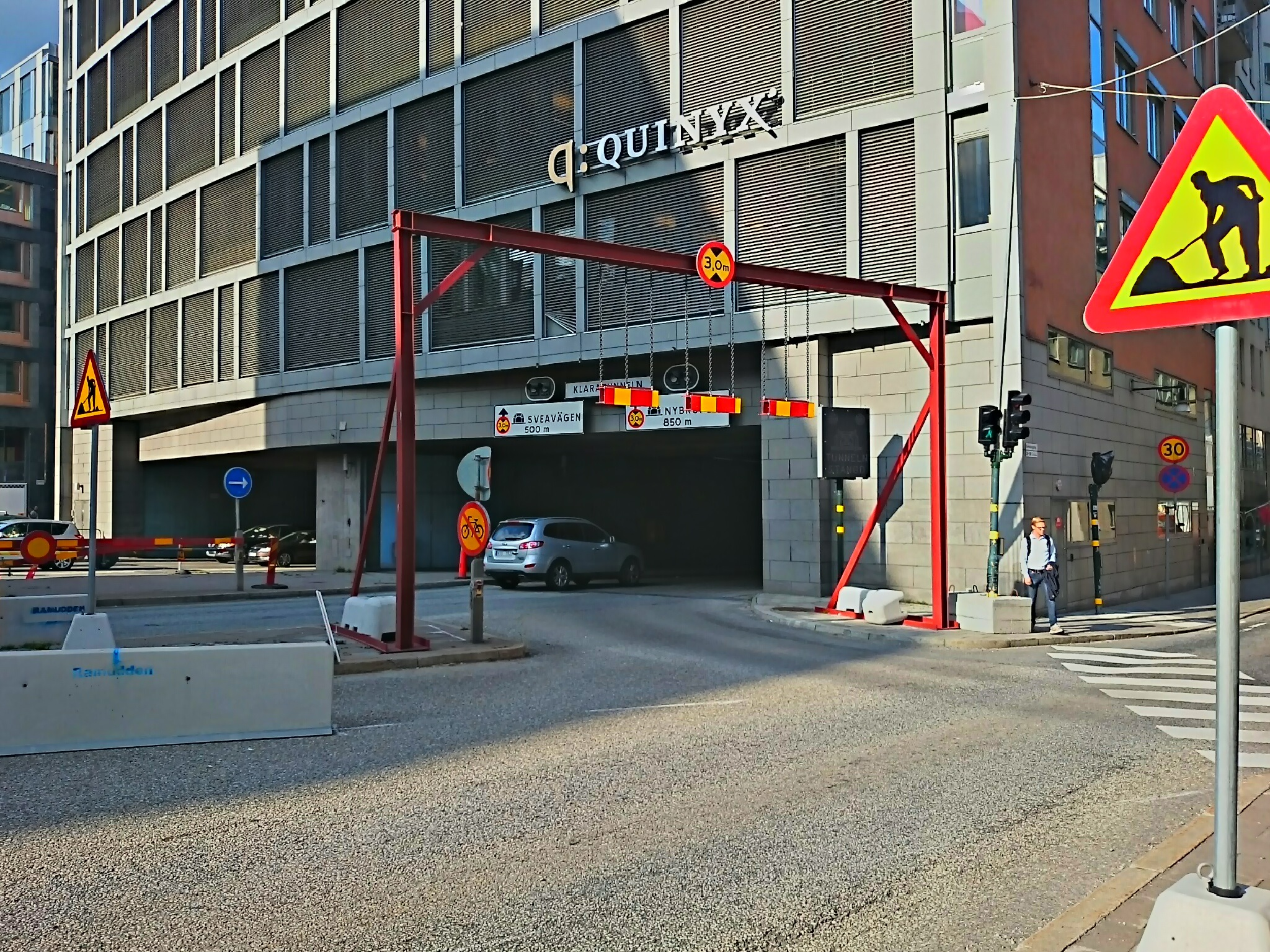 Equipment to catch tall vehicles before entering tunnel. Stockholm, Sweden.